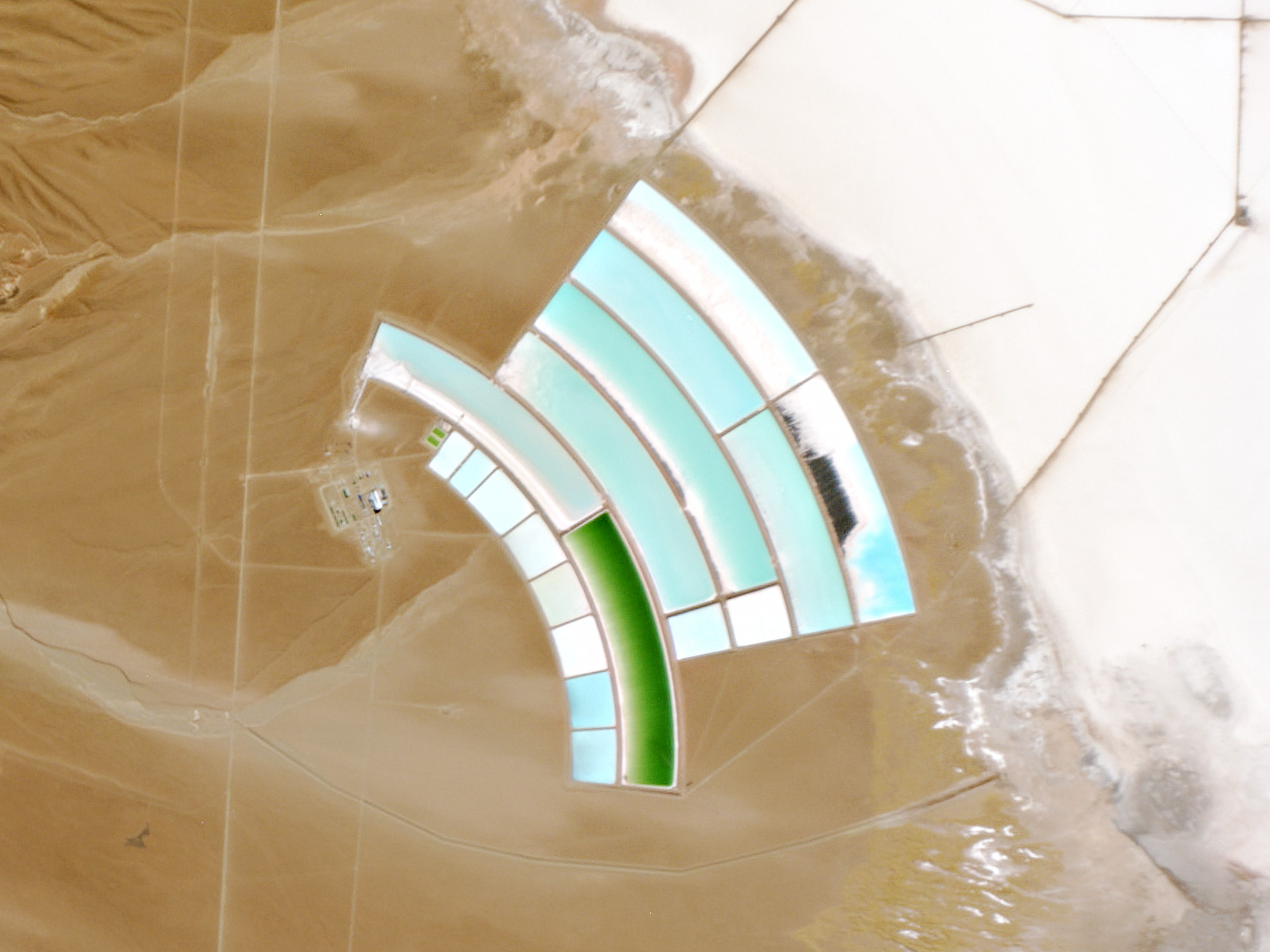 Salar de Olaroz Lithium Mine, Argentina July 5, 2015 Salt-encrusted lake beds, called salars, are scattered across the high, dry, and windy Puna de Atacama. Formed from the concentrated remnants of vast ancient lakes, the salars hold many soluble minerals, like potassium salts, lithium salts, and table salt. The Salar de Olaroz lithium mine is a new facility that will be capable of producing 17,500 metric tonnes of lithium carbonate per year by the end of 2015.